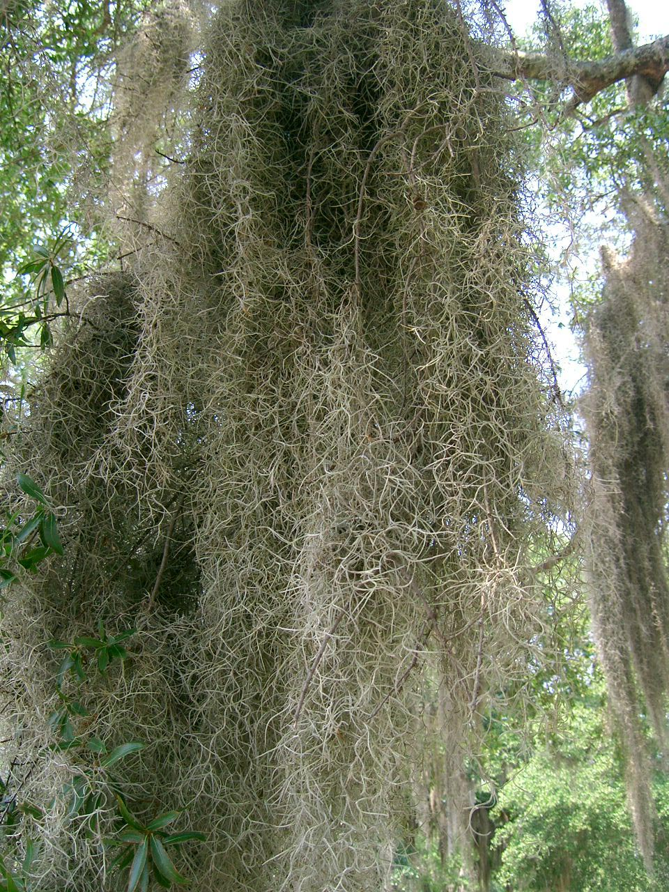 Spanish moss in a swamp at Little Ocmulgee State Park in Georgia. The moss hangs from white oak trees over tannin-stained waters.